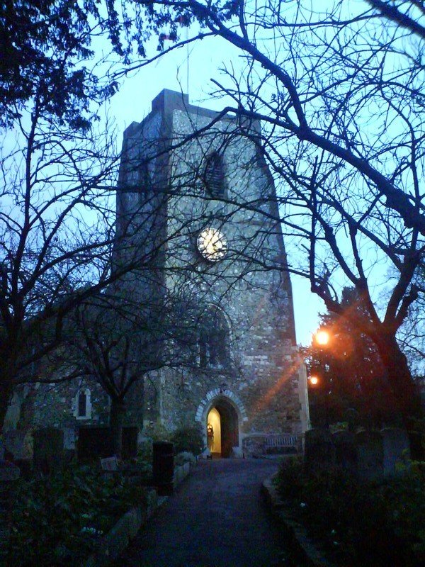 West tower of St Mary's parish church, Walton-on-Thames, Surrey, seen from the northwest